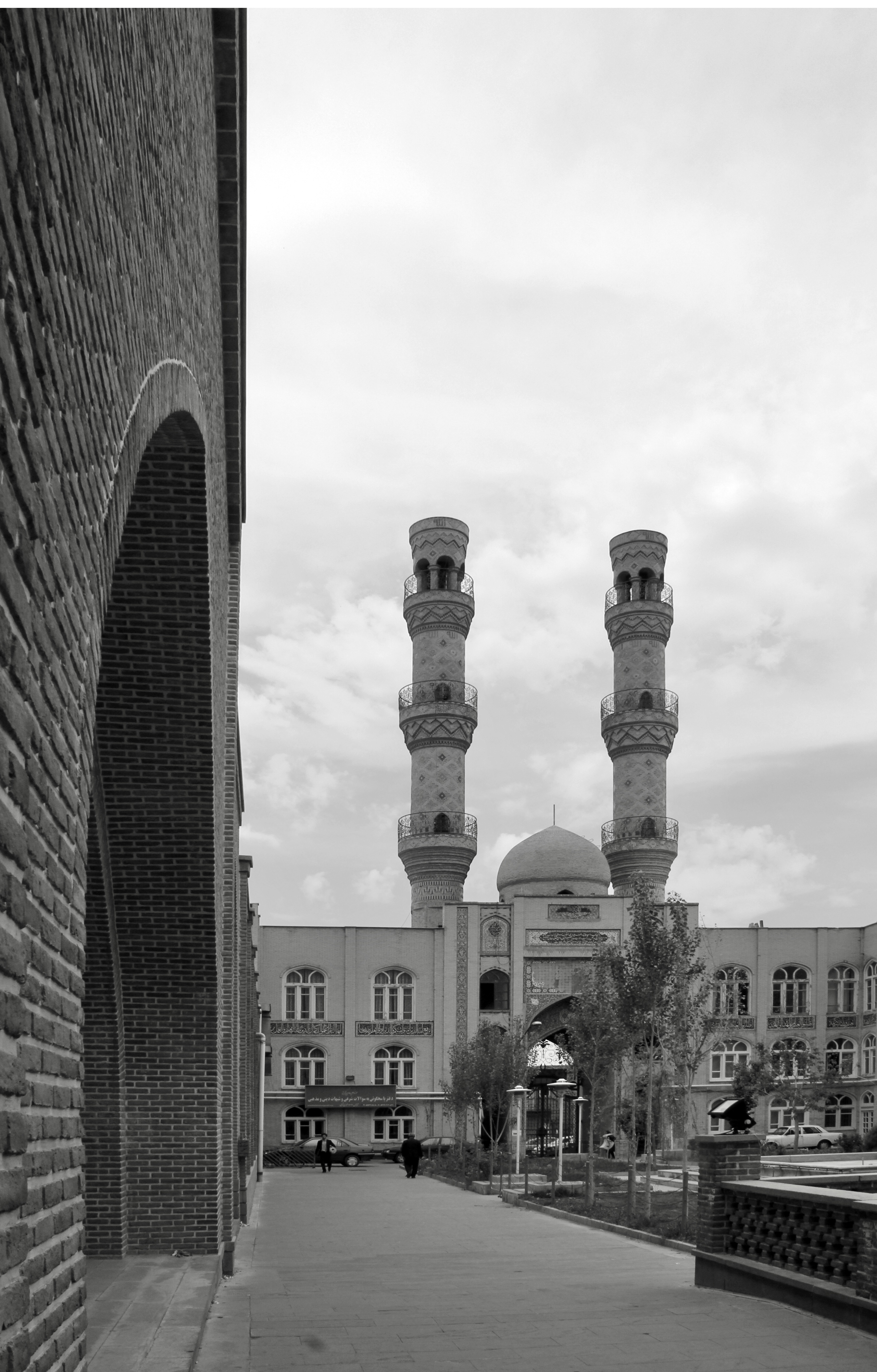 Jameh Mosque of Tabriz